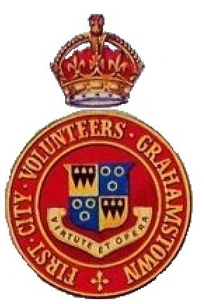 SANDF Grahamstown First City emblem